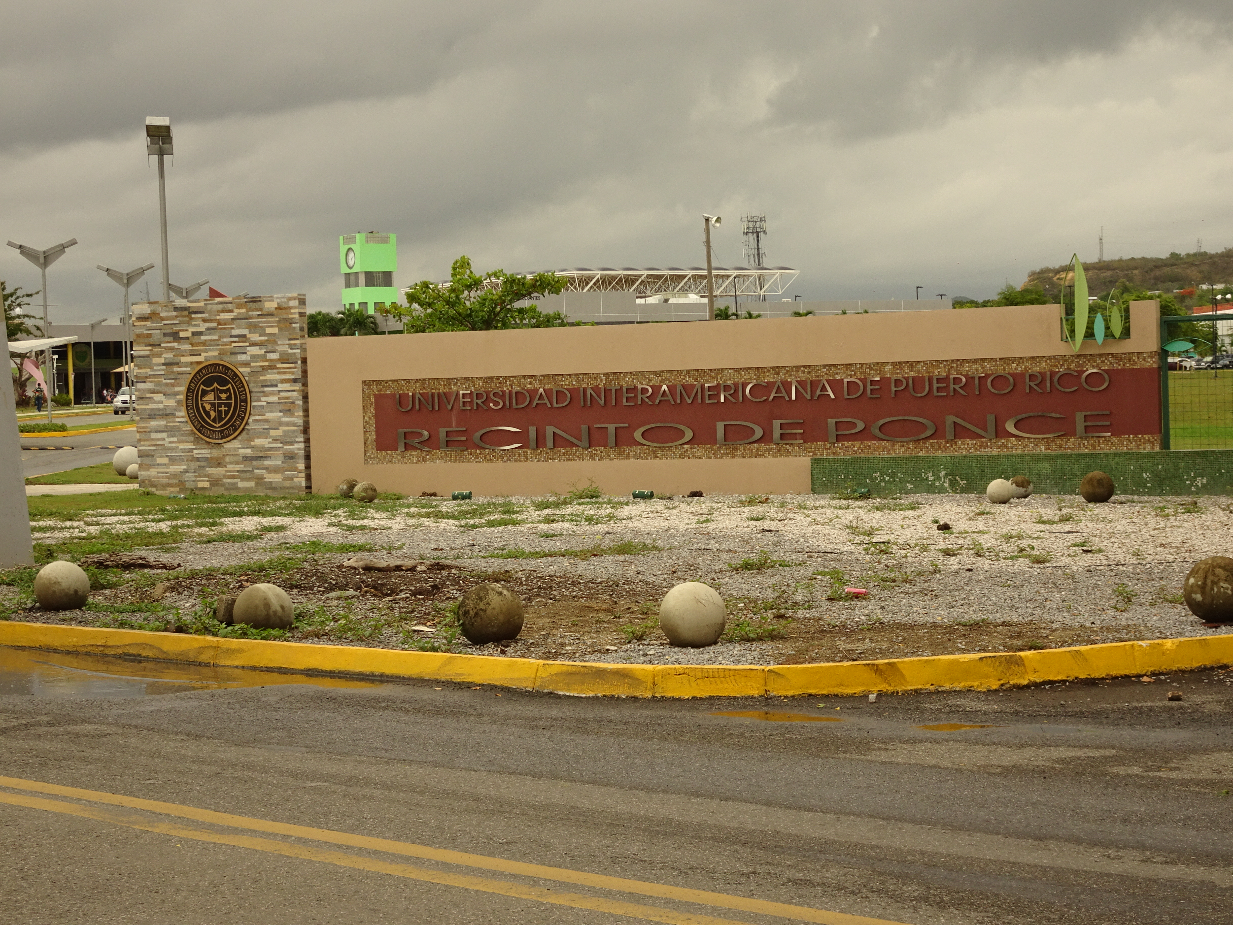 Univ. Interamericana, entrada, Bo. Sabanetas, Ponce, Puerto Rico, mirando al noroeste (DSC01593)